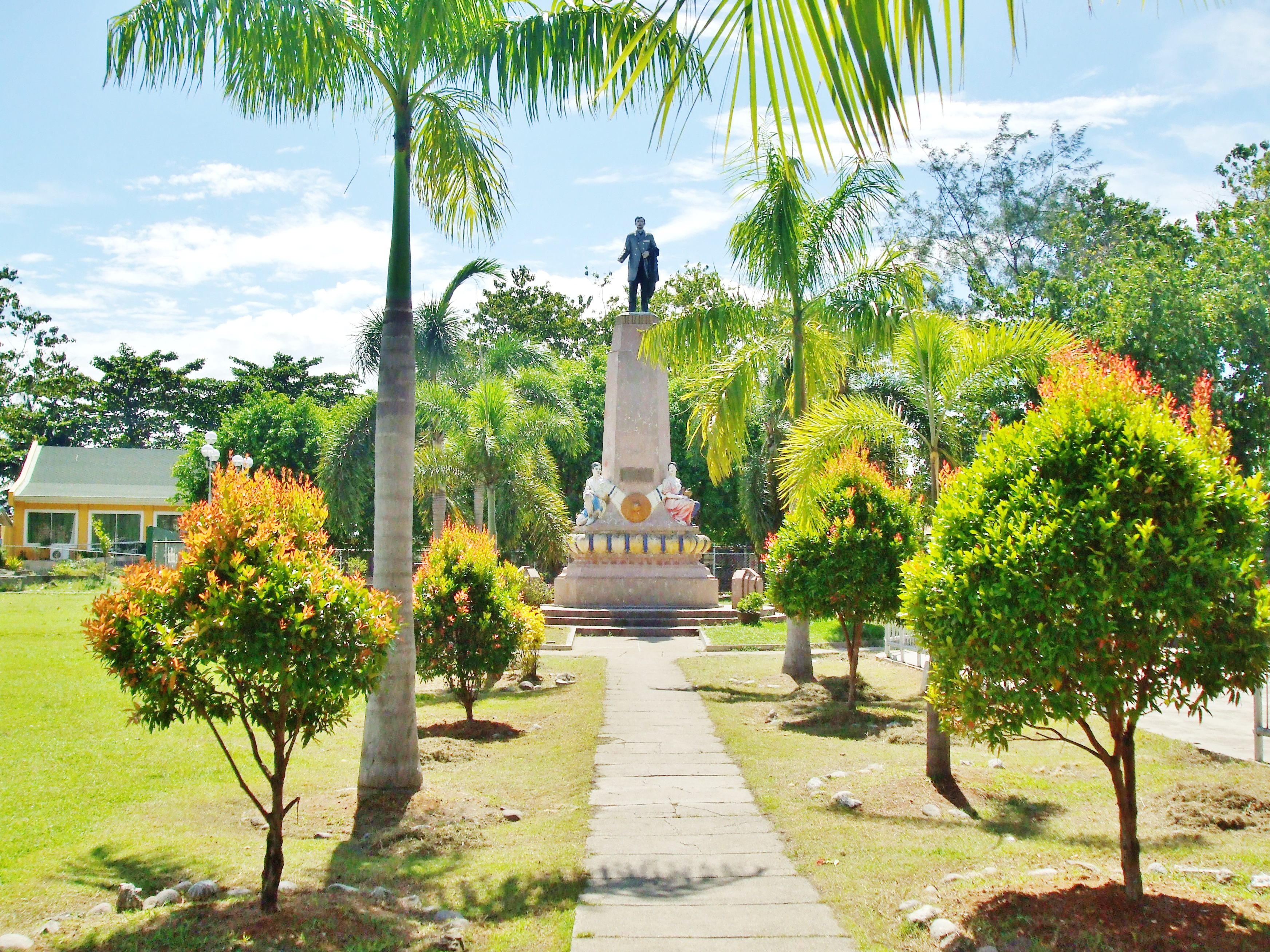 Rizal Monument in Sta. Cruz